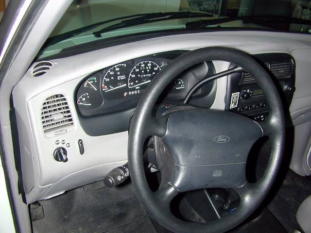 Ford Ranger EV - image by Geoff Shepherd, uploaded with permission by User:Leonard G., see Auston EV site and Geoff Shephard's Range EV Photo Album for source and other images.